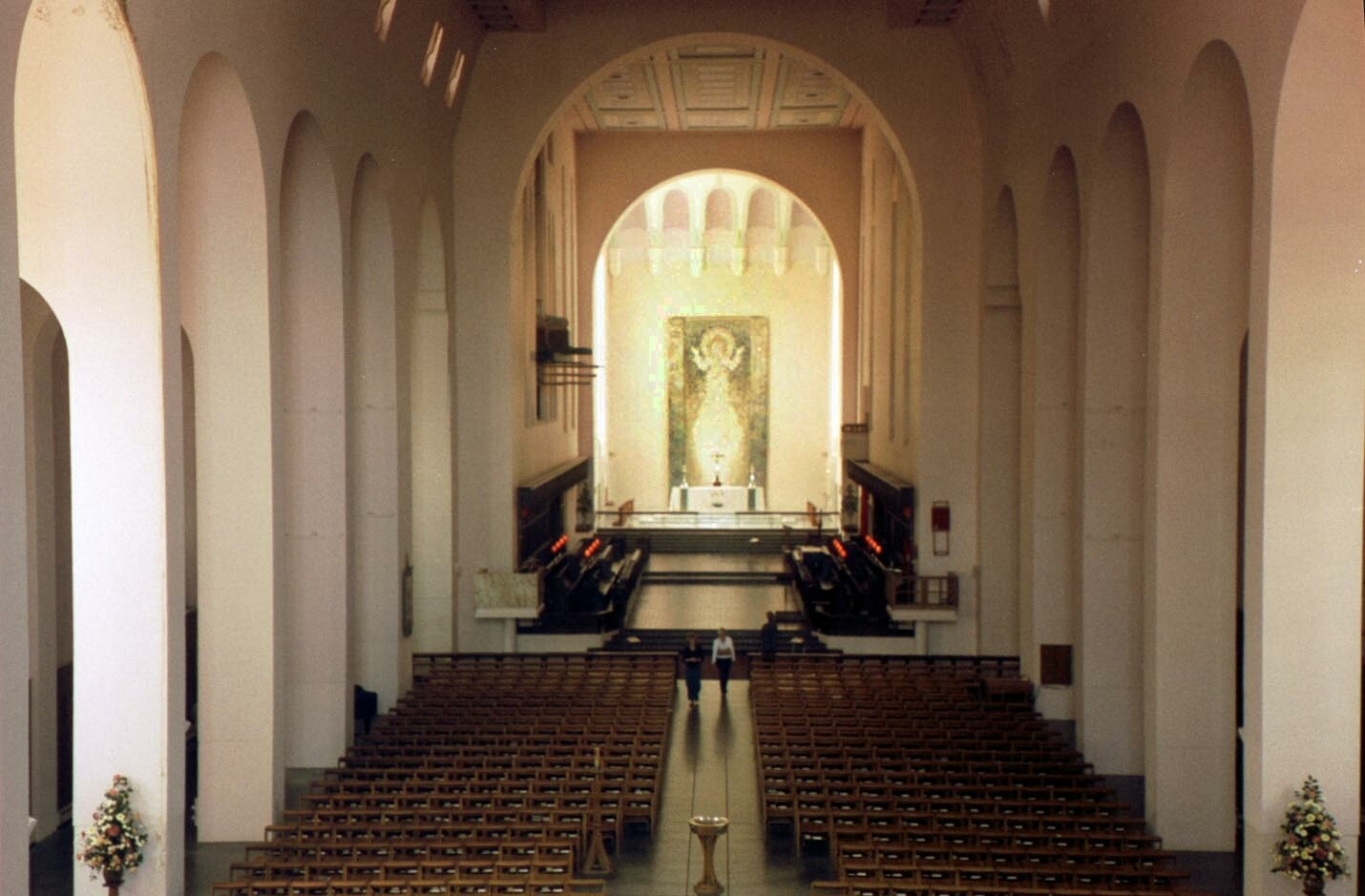 The Inside of Wellington Cathedral, New Zealand